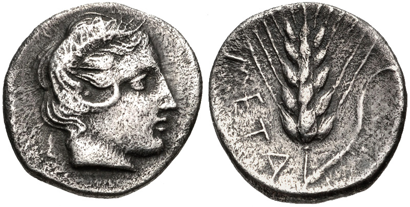 Lucania, Metapontum. Circa 430-400 BC. AR Triobol (12mm, 1.02 g, 12h). Laureate head of Apollo Karneios right, wearing horn over ear Five-grained barley ear, with leaf to right. Noe 364 (same dies); HN Italy 1509. Good VF, toned, slight granularity. Fine style.